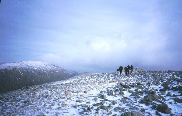 Summit of Carnedd Dafydd. Approaching the summit of Carnedd Dafydd (1044m). Carnedd Llewelyn in the background.